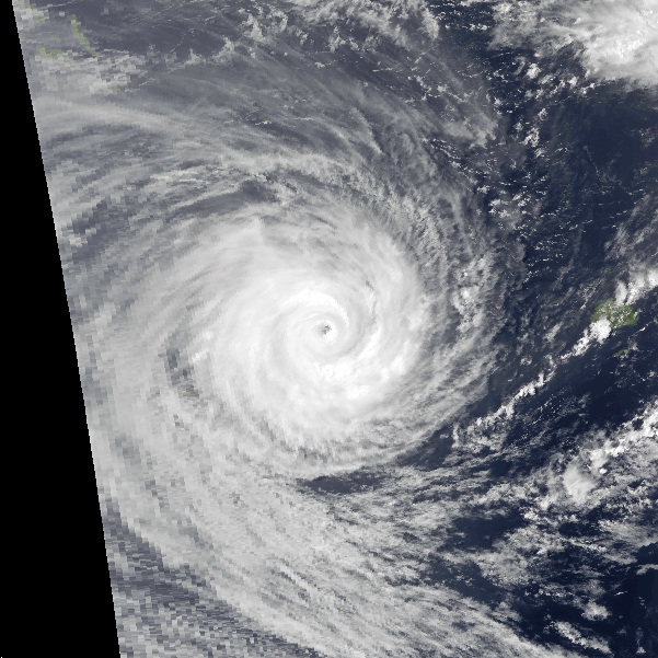 Tropical Cyclone Fran on March 9, 1991